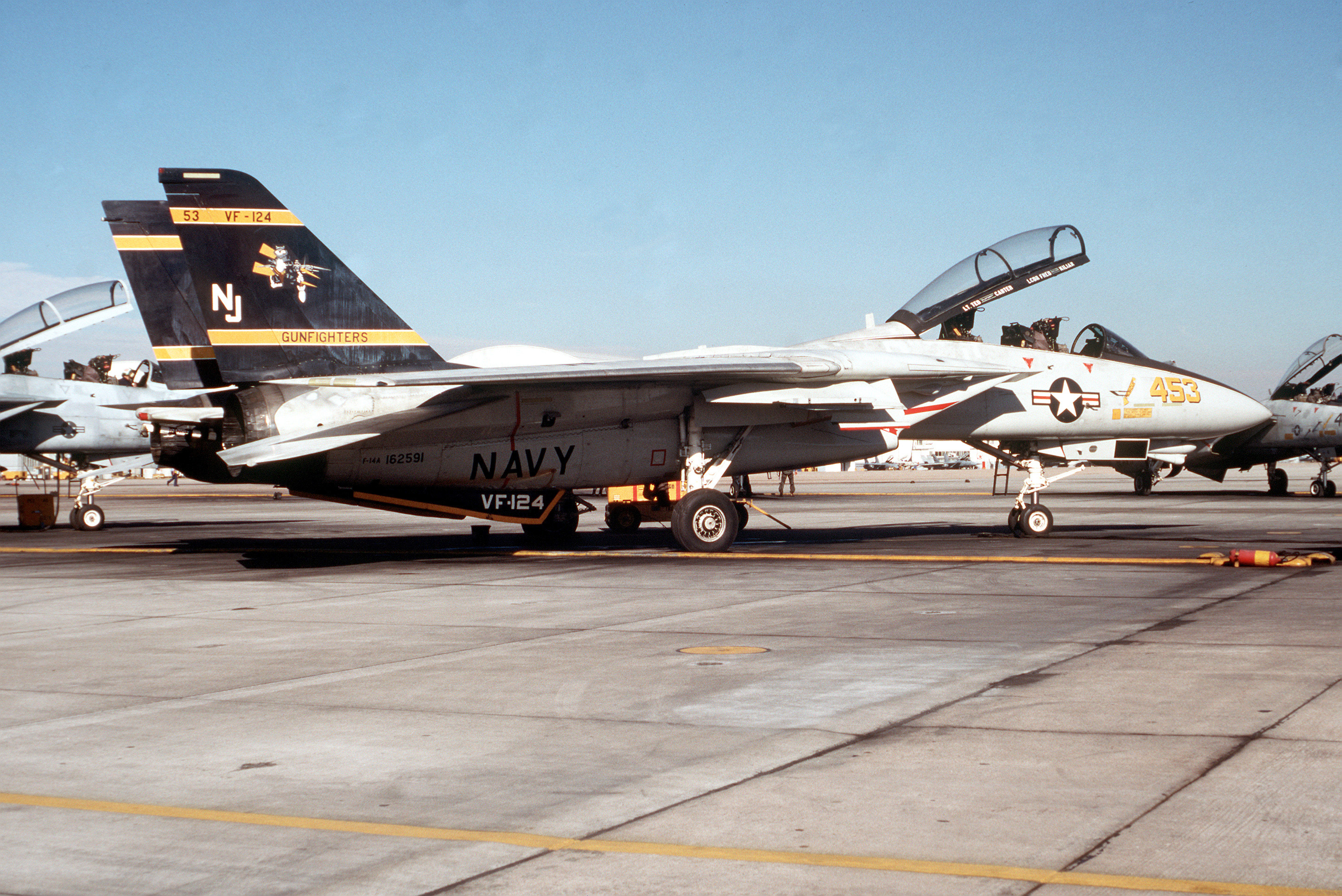 An F-14 A Tomcat aircraft of Fighter Squadron 124 (VF-124) is serviced on the flight line.Location: NAVAL AIR STATION, MIRAMAR, CALIFORNIA (CA) UNITED STATES OF AMERICA (USA)